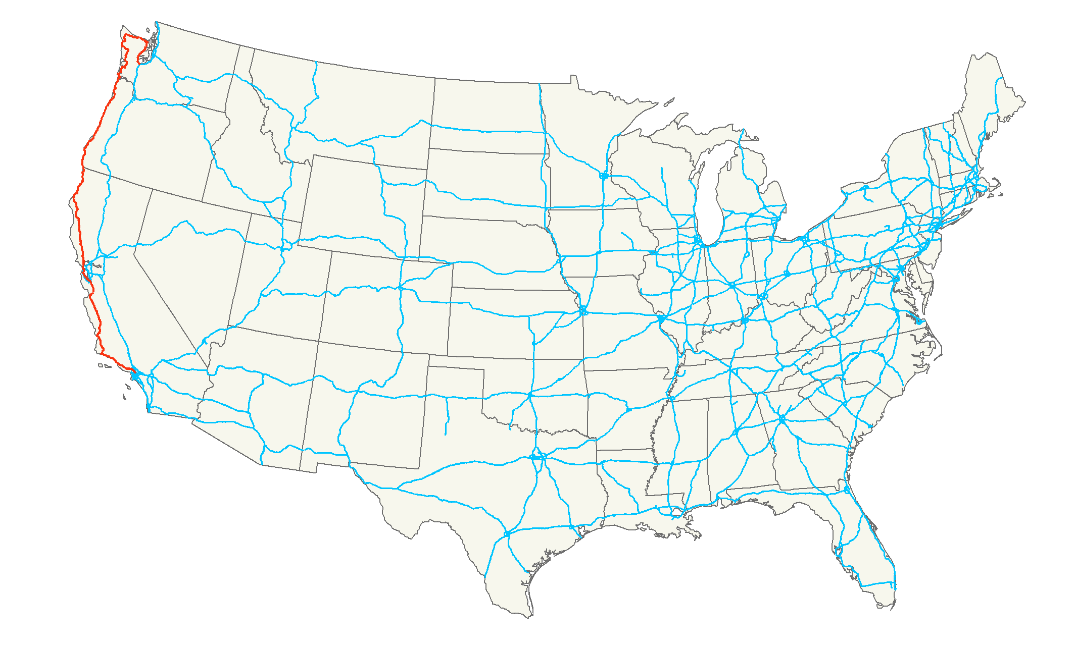 Map of U.S. Route 101